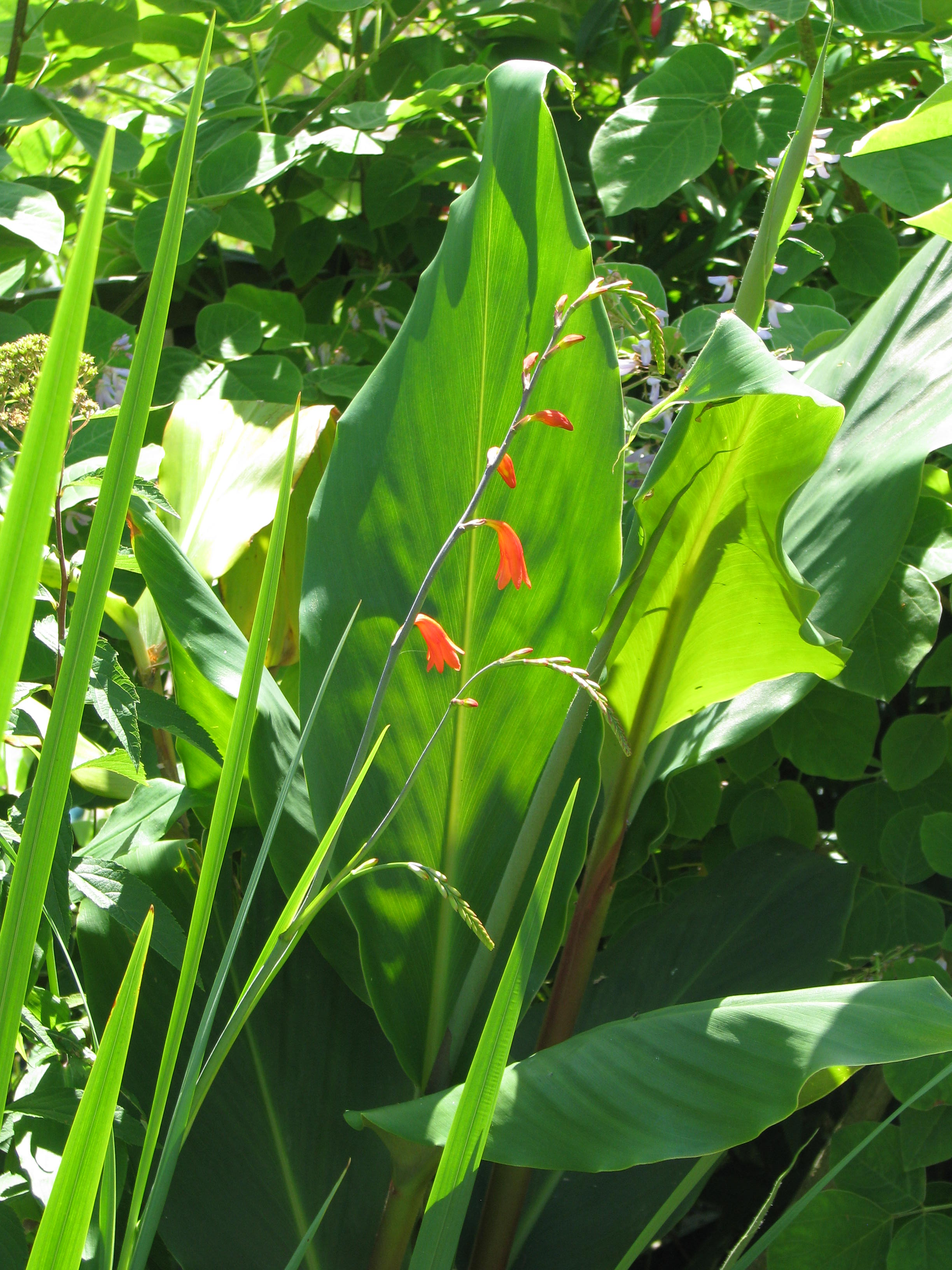 Or that's what Paul Spracklin got it as and he wasn't sure it was right. It was popping up in several places in his garden and looking very nice indeed. Thanks Paul